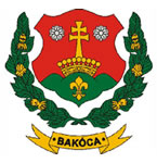 Coat of arms of Bakóca, Hungary